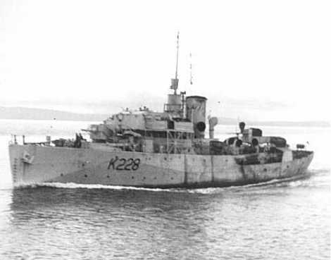 HMCS New Westminster- Flower class corvette 40-41 program.